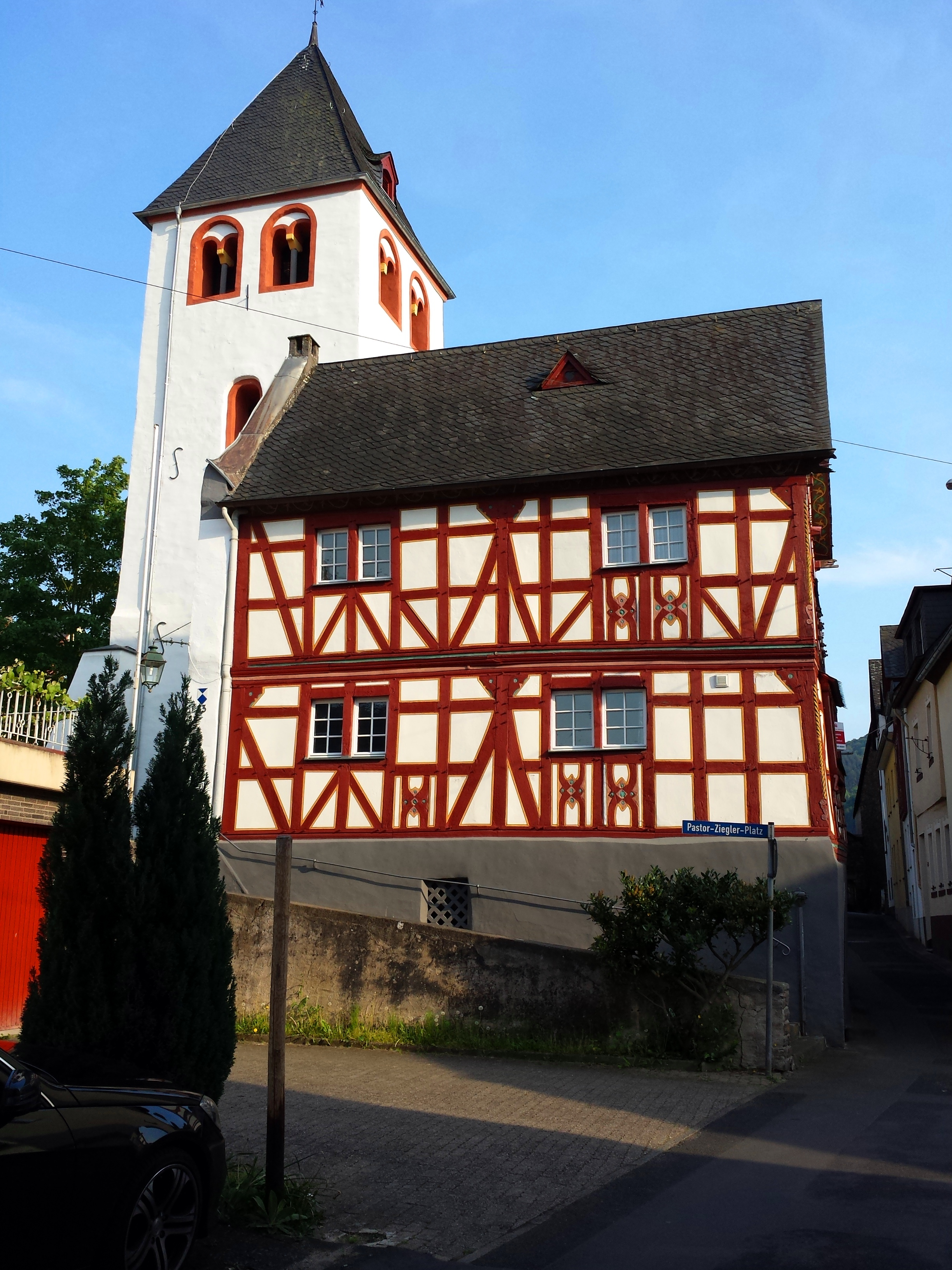 Old Churchtower